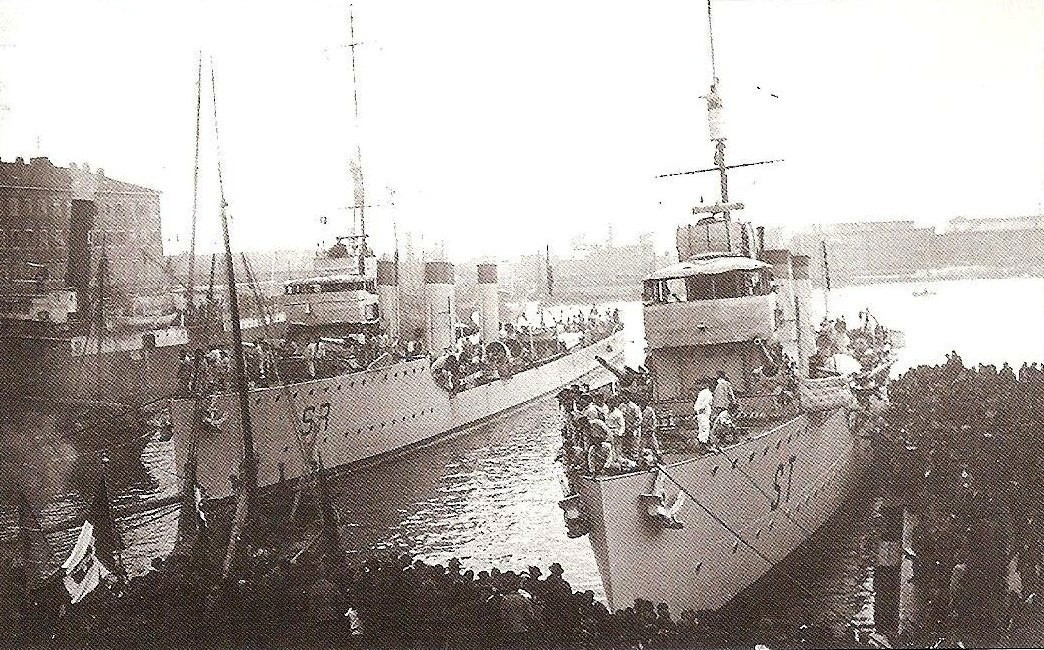 The Italian destroyers Sirtori and Stocco moored in Fiume.